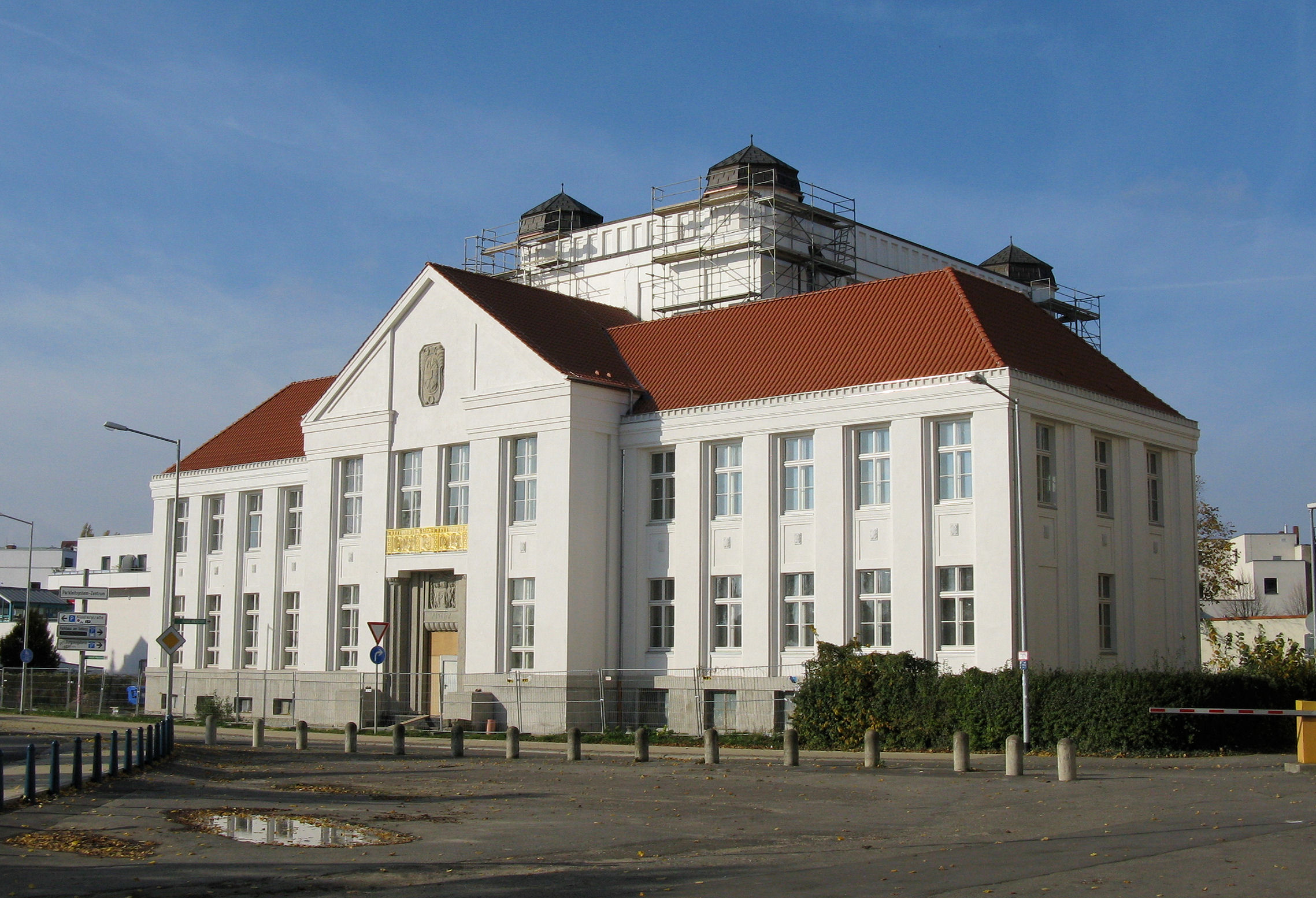 Landeshauptarchiv (state main archive) in Schwerin, Mecklenburg-Vorpommern, Germany